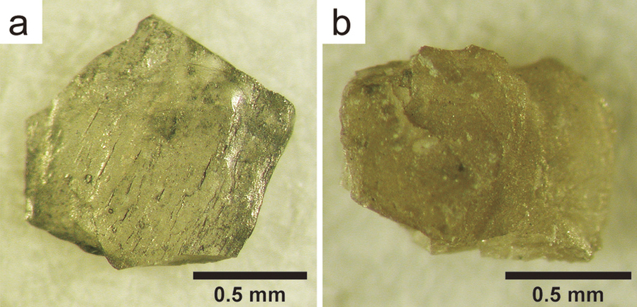 (a) Sample #05 composed purely of diamond. (b) Sample #08 composed of a mixture of diamond and small amount of lonsdaleite.